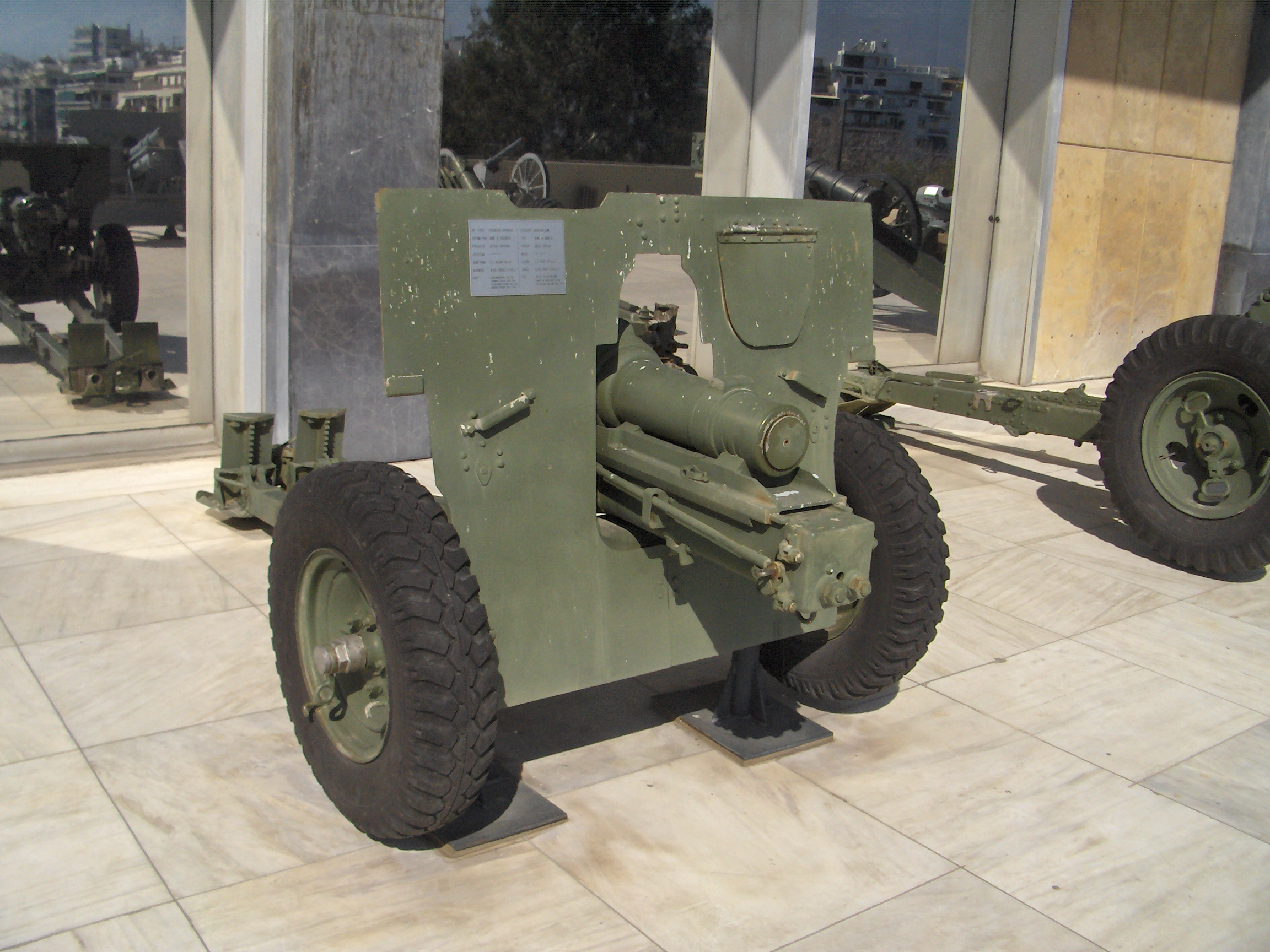 Exhibit at the War Museum in Athens. QF 3.7 inch Mk II mountain howitzer